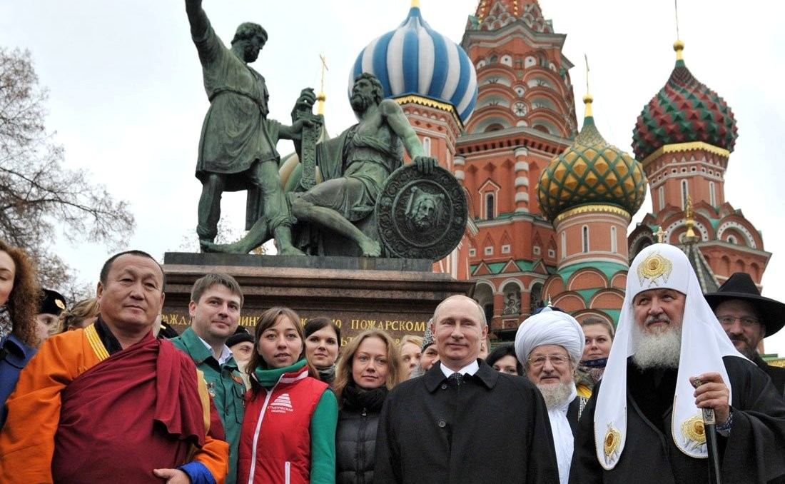 Celebrations of the National Unity Day in Russia, 2012.